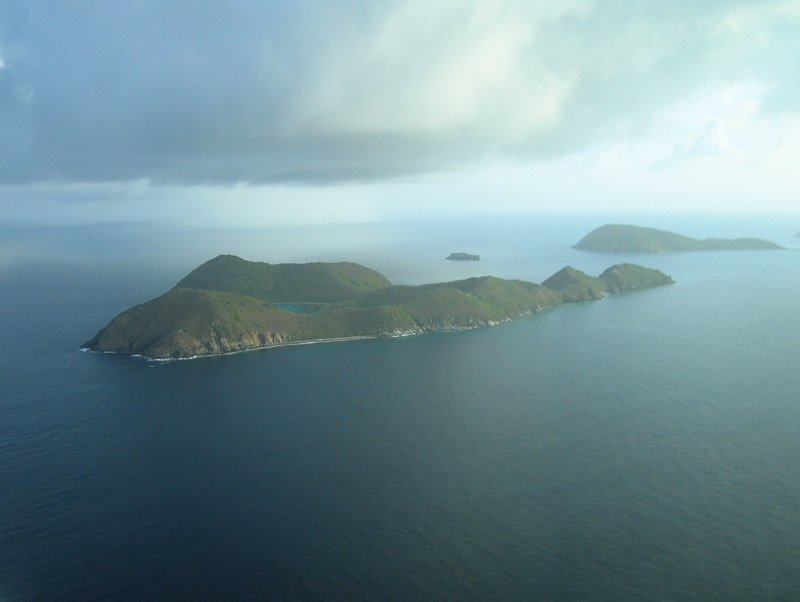 Ginger Island, one of the smaller among the British Virgin Islands